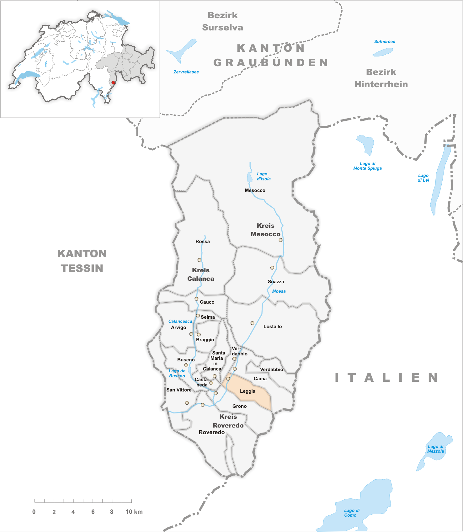 Municipality Leggia